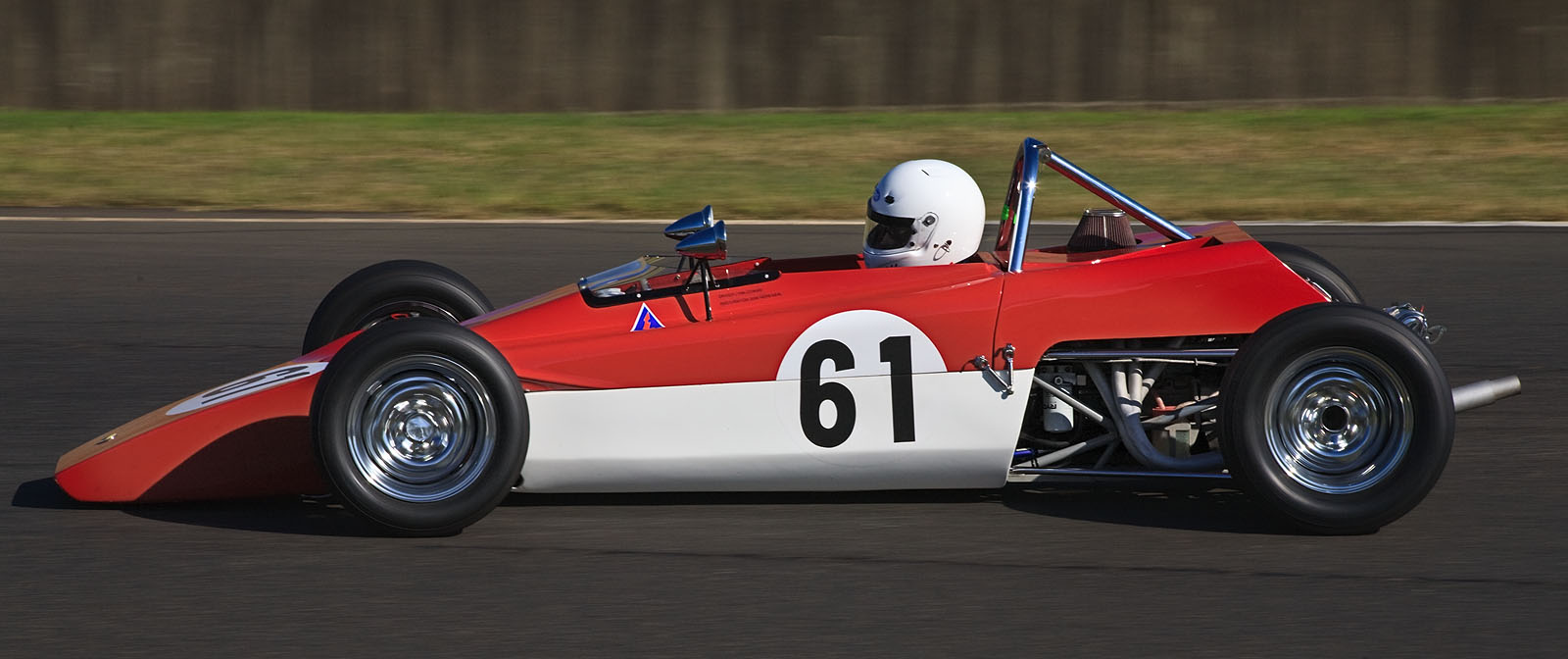 Historic Racing, Eastern Creek, Australia 2&3 May 2009 61 Lynn Cowan 1969 Lotus 61 Formula Ford IMG_7742